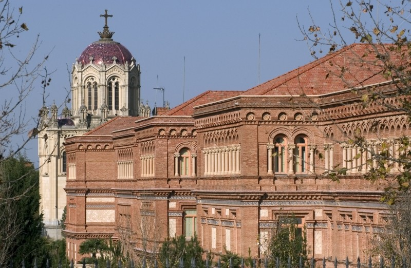 Saint Didacus of Alcalá Fundation, Sisters of Adoration School, in Guadalajara, Spain.